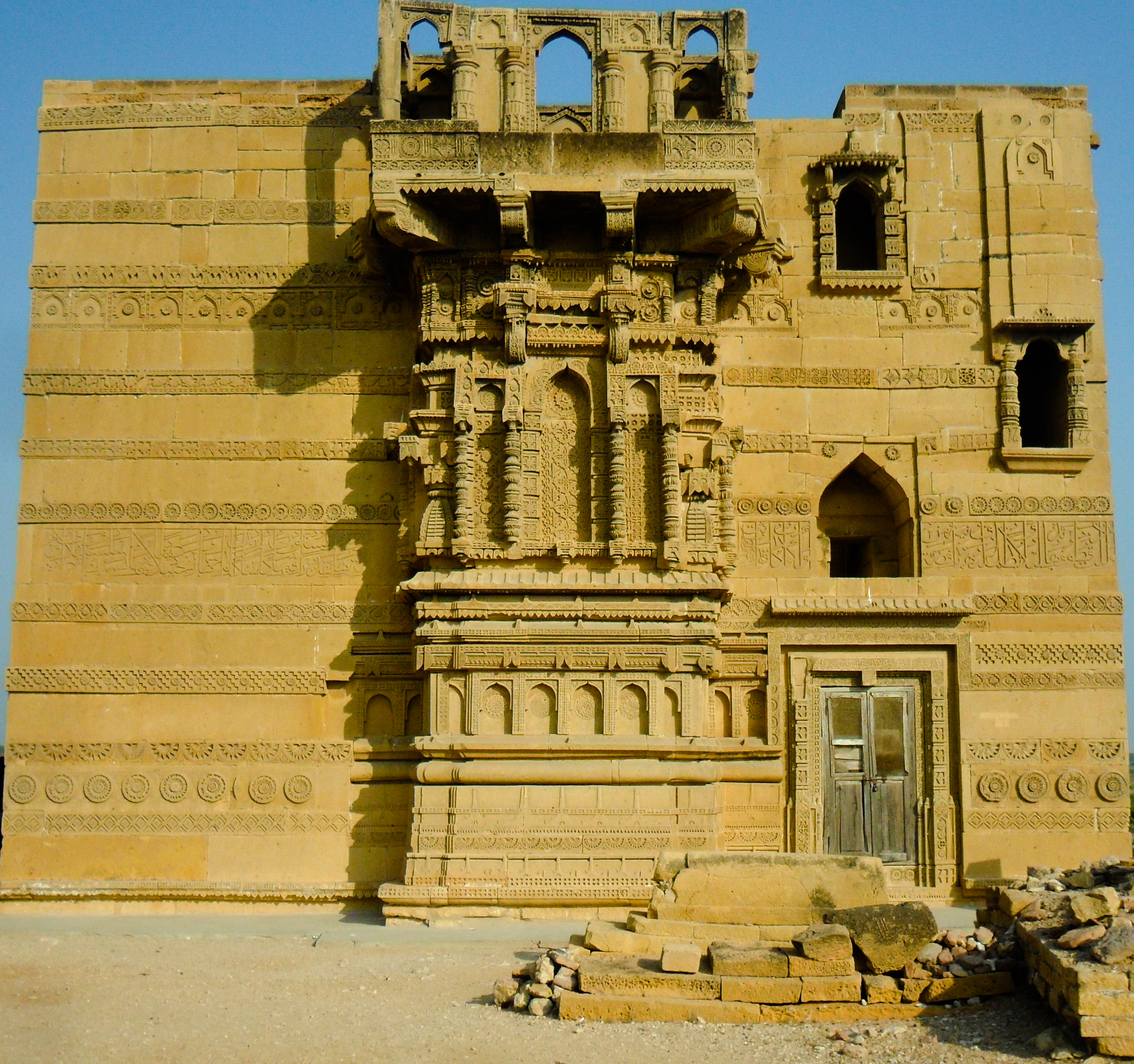 Tombs, compound wall of yellow stone, pavilions on stone pillars over the tombs, tomb with superstructure on stone pillars, brick structure, all around the tomb of Jam Nizamuddin This is a photo of a monument in Pakistan identified as the SD-95